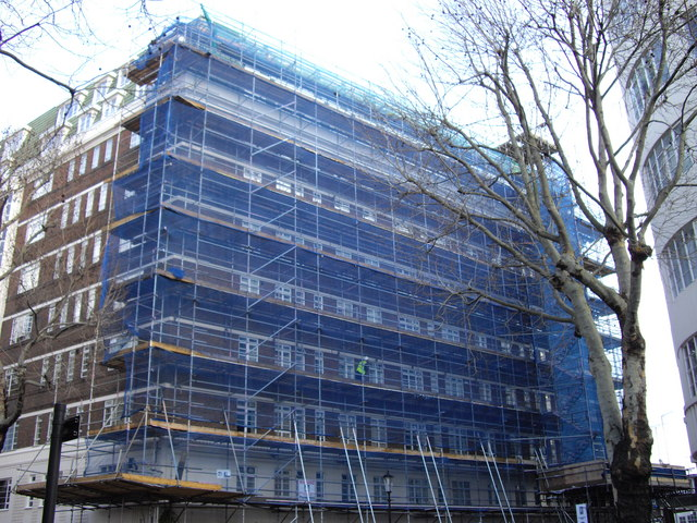 Scaffolding Nell Gwynn House, Chelsea The scaffolding is on the Whitehead's grove side of Nell Gwynn House. Nell Gwynn House stands in the heart of Chelsea, one of the most exclusive residential districts of London.